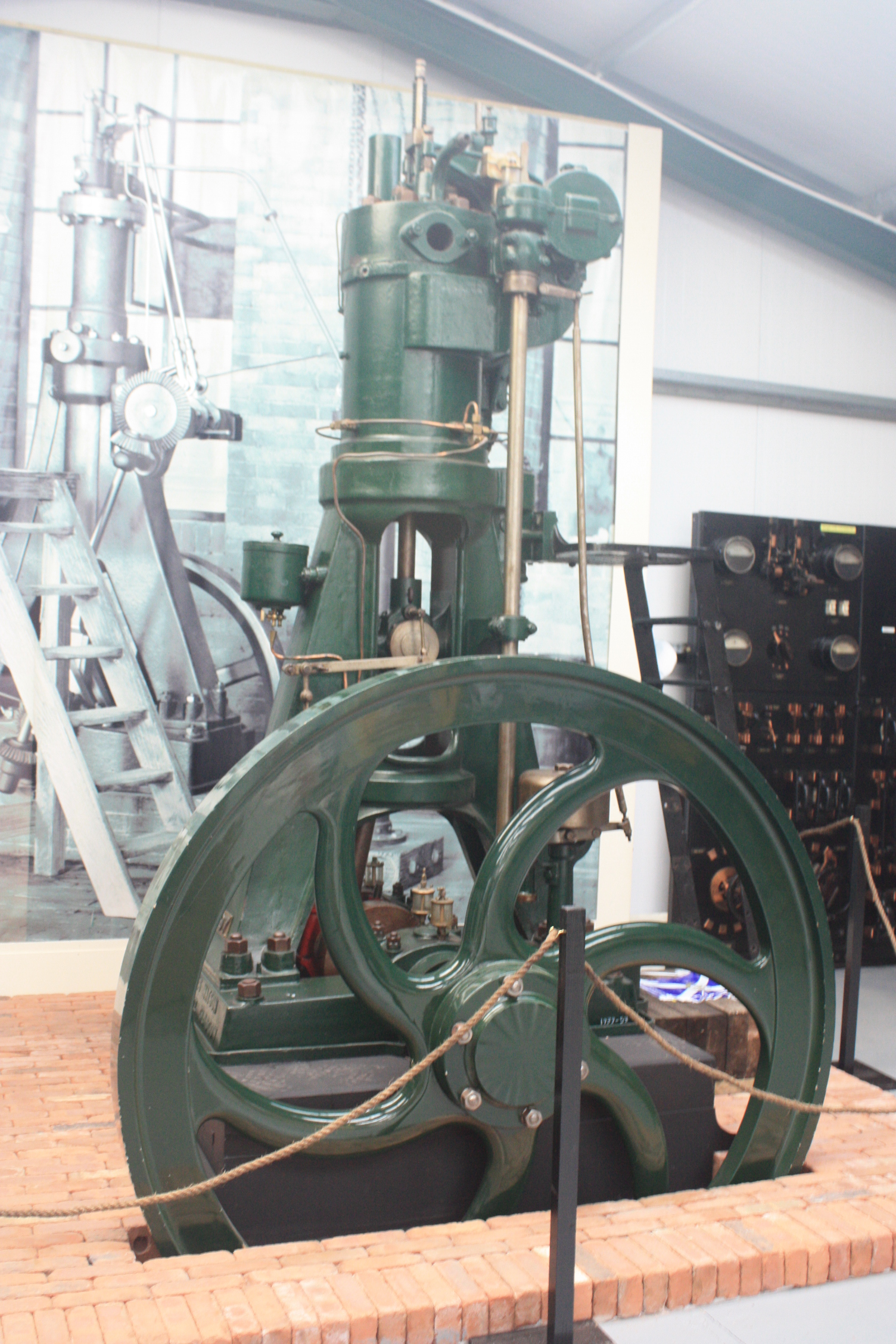 This is the Mirrlees No.1 engine on display at the Anson Engine Museum at Poynton, Cheshire in England. The photo was created to illustrate an important piece of engineering heritage on Wikipedia and and other GDFL web sites.